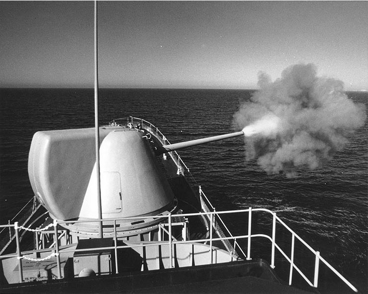 USS Hull (DD-945): The destroyer's 8"/55 Mark 71 Major Caliber Lightweight Gun is test fired off San Clemente Island, California, 17 September 1975.